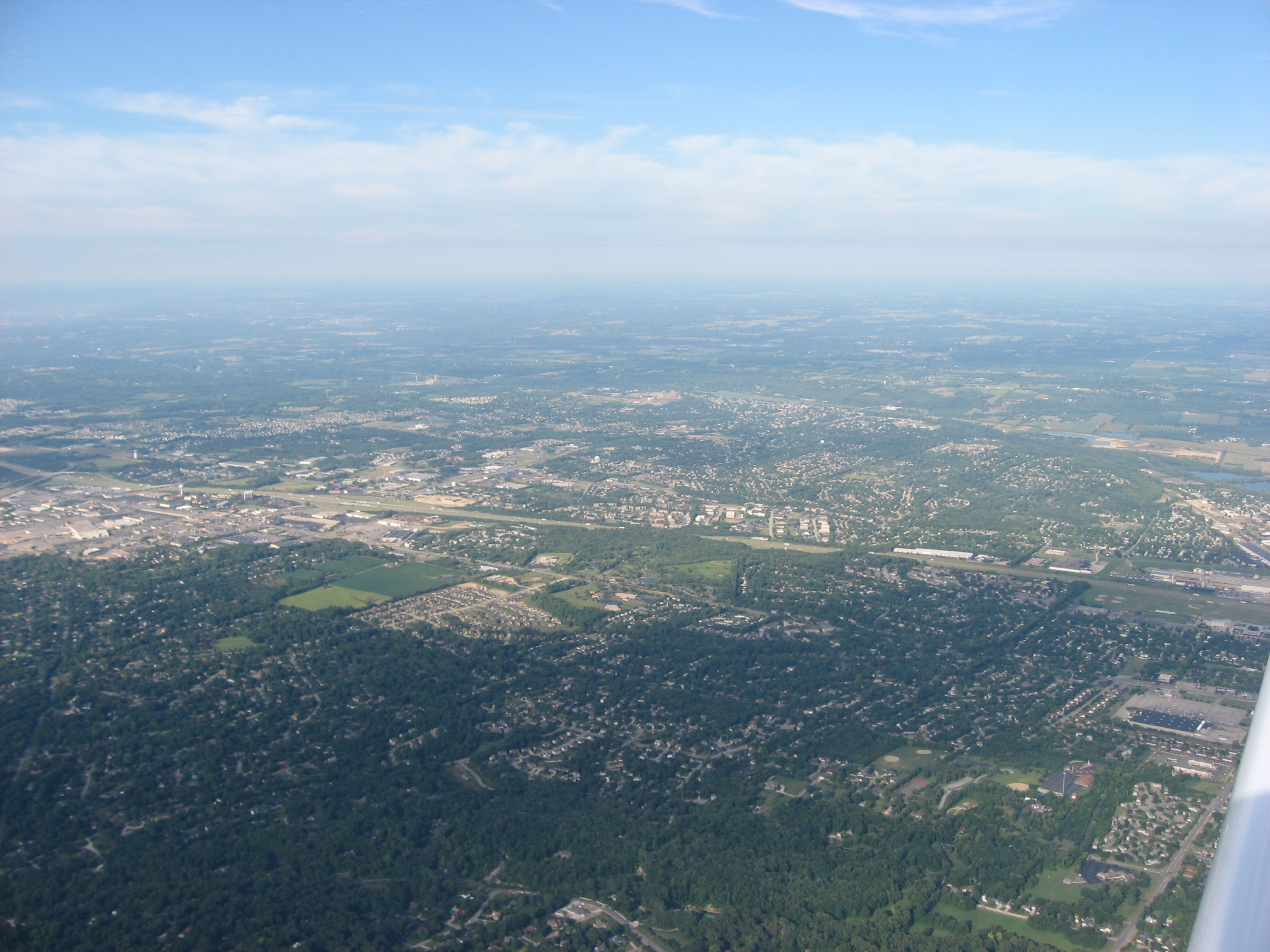 Aerial view of West Carrollton, a city in Montgomery County, Ohio, United States. Interstate 75 is the major highway running from side to side in the middle of the picture. Picture taken from a Diamond Eclipse light airplane at an altitude of 4,500 feet MSL and a bearing of approximately 69º.